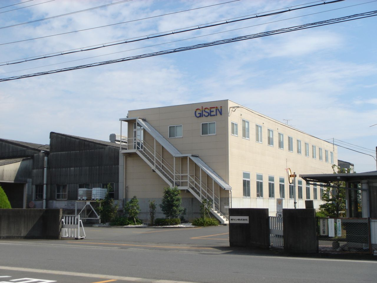 Gisen Corporation in Gifu prefecture.（岐セン、本社・穂積工場）,Mizuho,Gifu,Japan(岐阜県瑞穂市牛牧)で撮影。